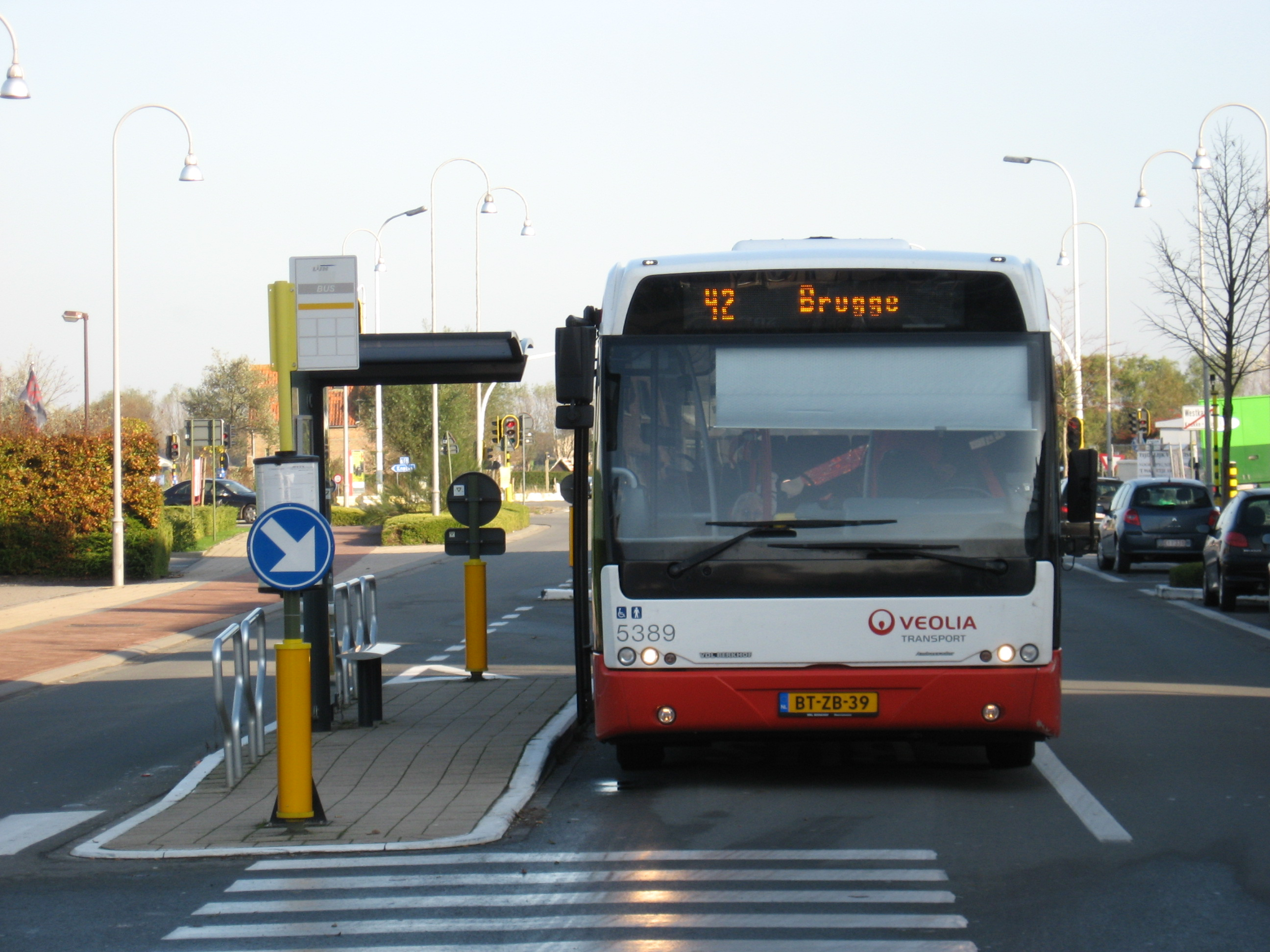 Special busstop in the middle of the road. There is a similar stop in the other direction. The two stops are connected with each other with a zebra path. The bus is the international line 42 Bruges (Belgium) to Breskens (Netherlands). The place is Westkapelle, the last stop before the border on the Belgian side.